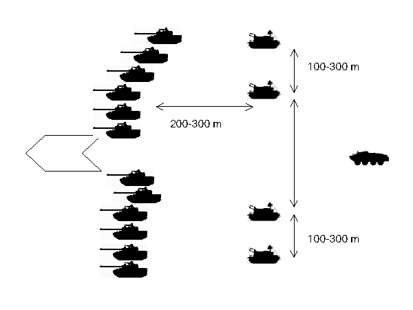 Order of Battle ZSU-23-4